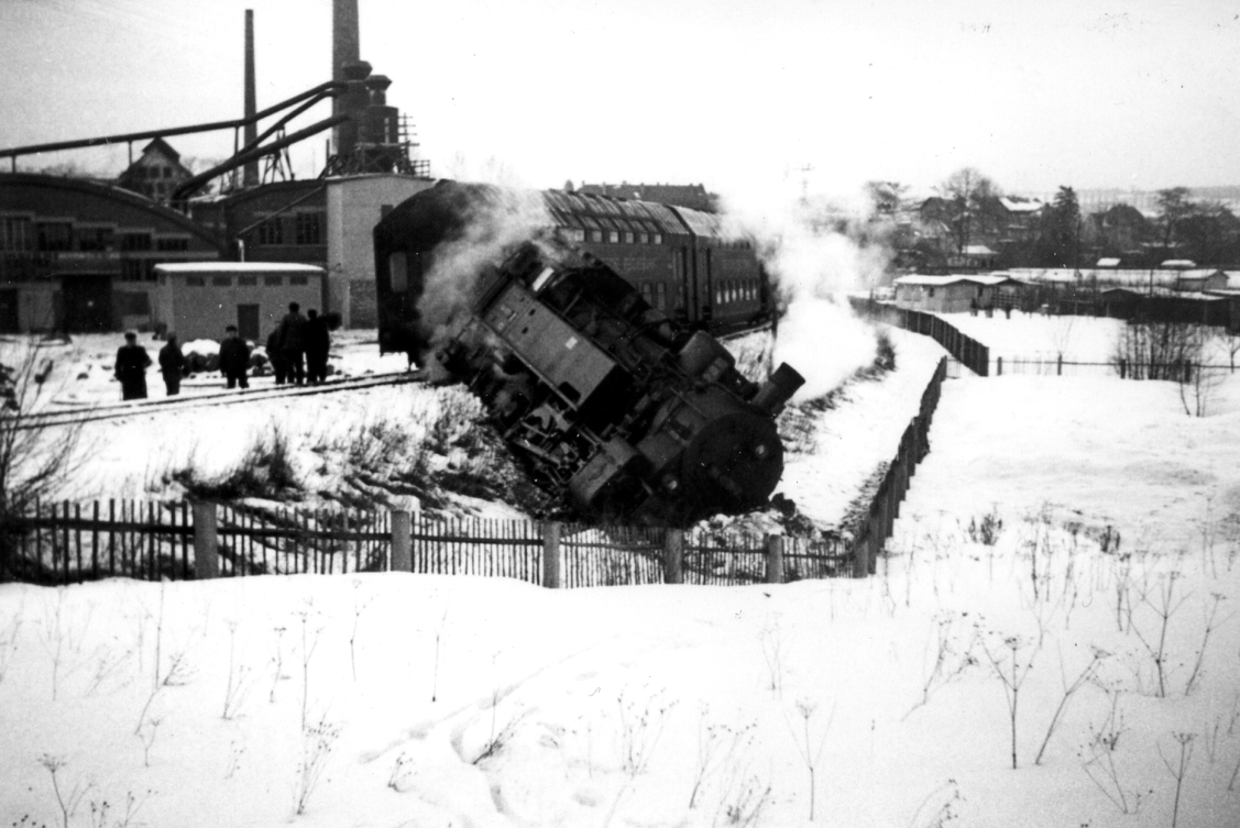 Train accident Ilmenau Germany.